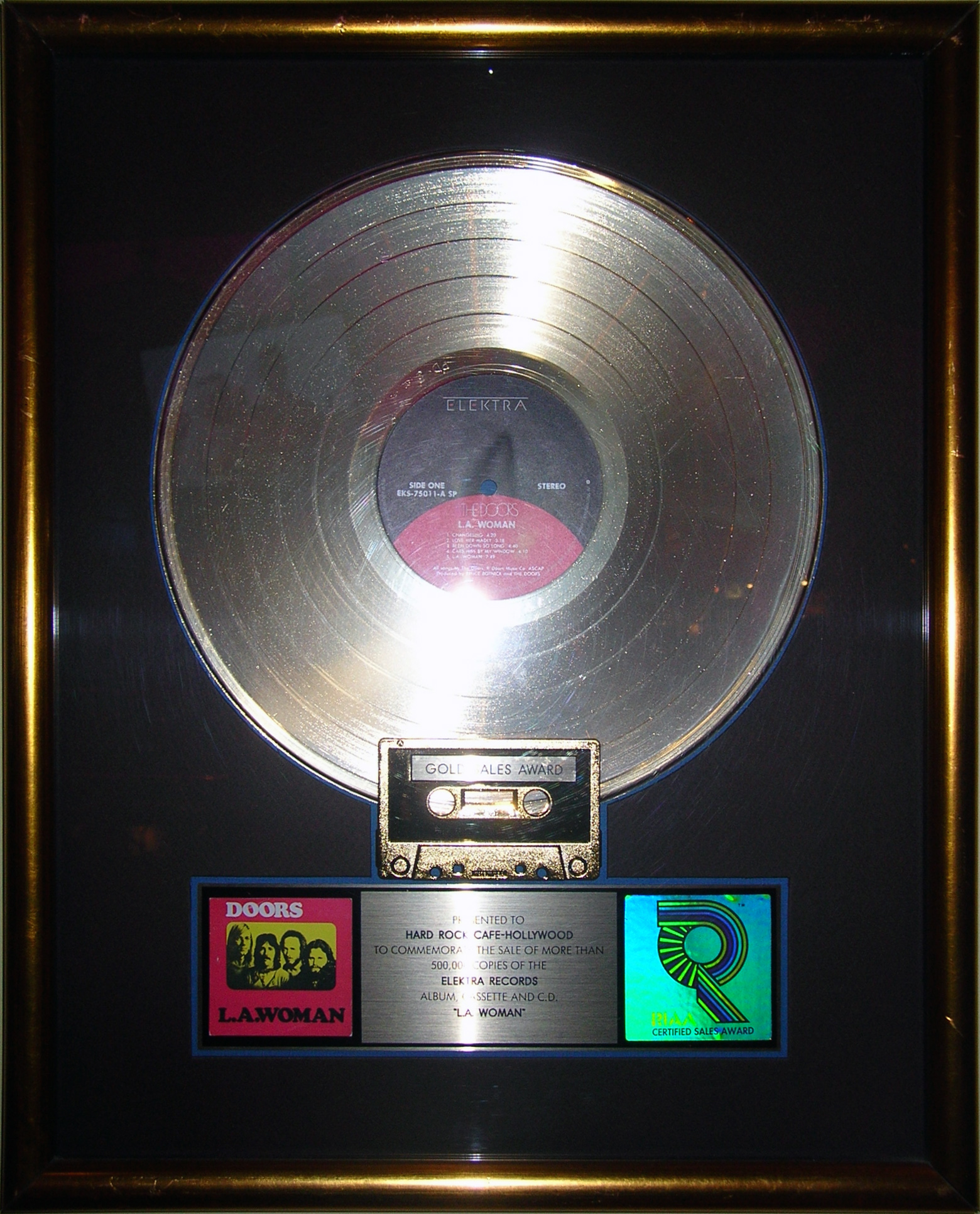 The gold record for The Doors' L. A. Woman at the Hard Rock Cafe Hollywood.